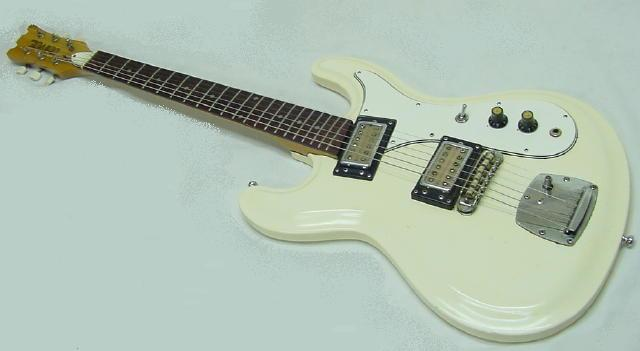 This is a photoshopped image from my personal archive.